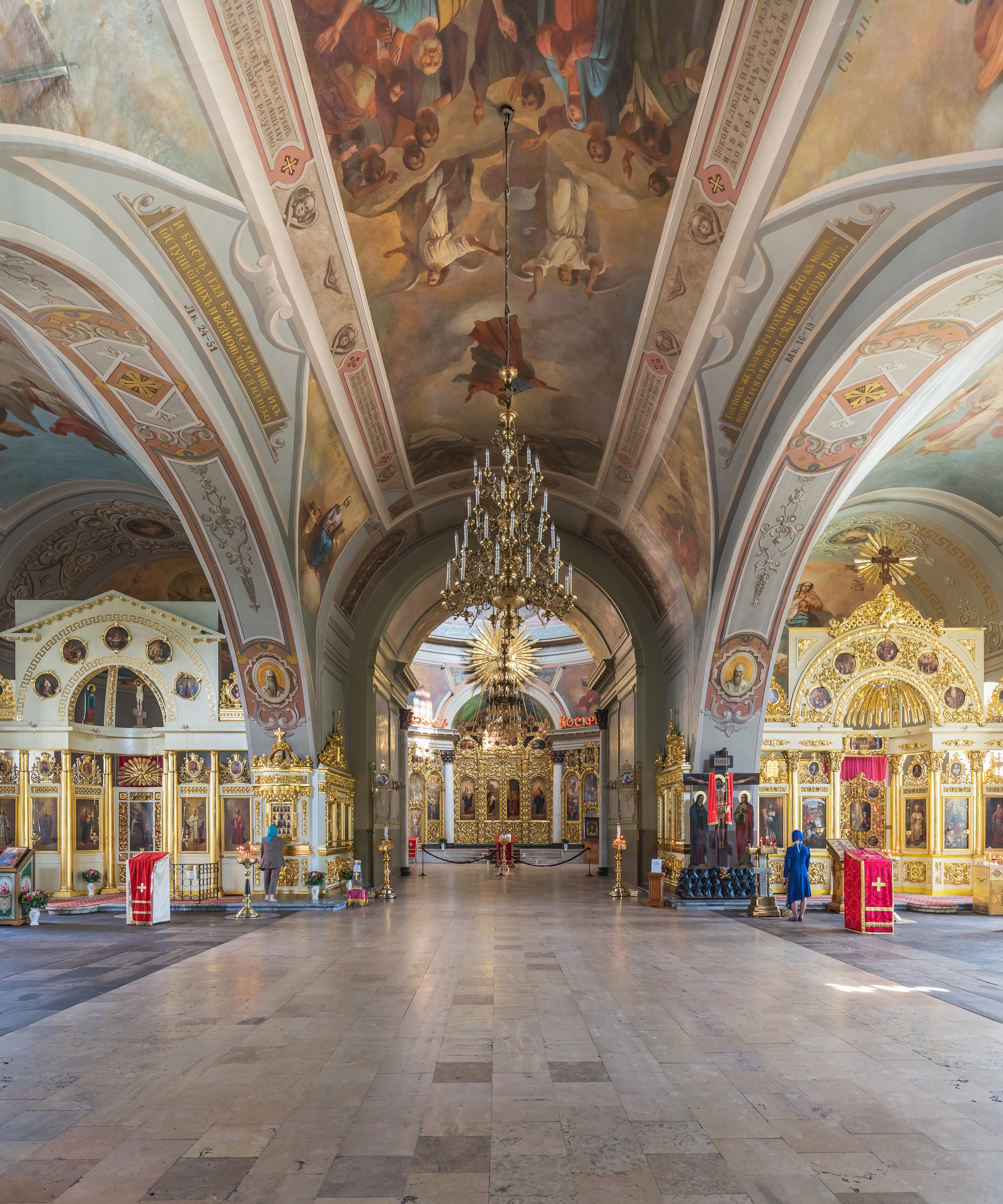 Great Ascension Church in Moscow, Russia